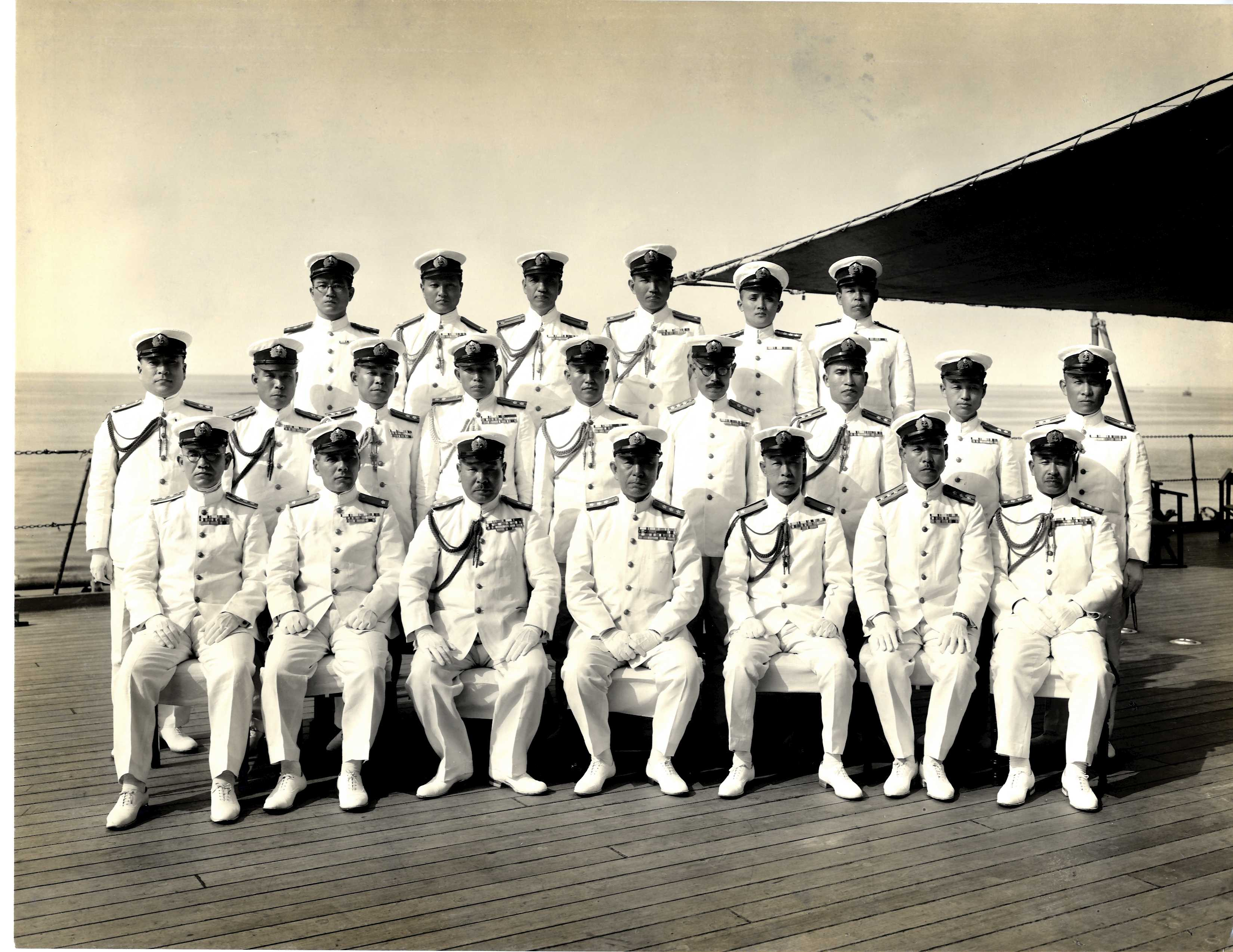 First row, 3rd from left, Chief-of-Staff Shigeru Fukudome, and 4th, Commander-in-Chief of the Combined Fleet Mineichi Koga